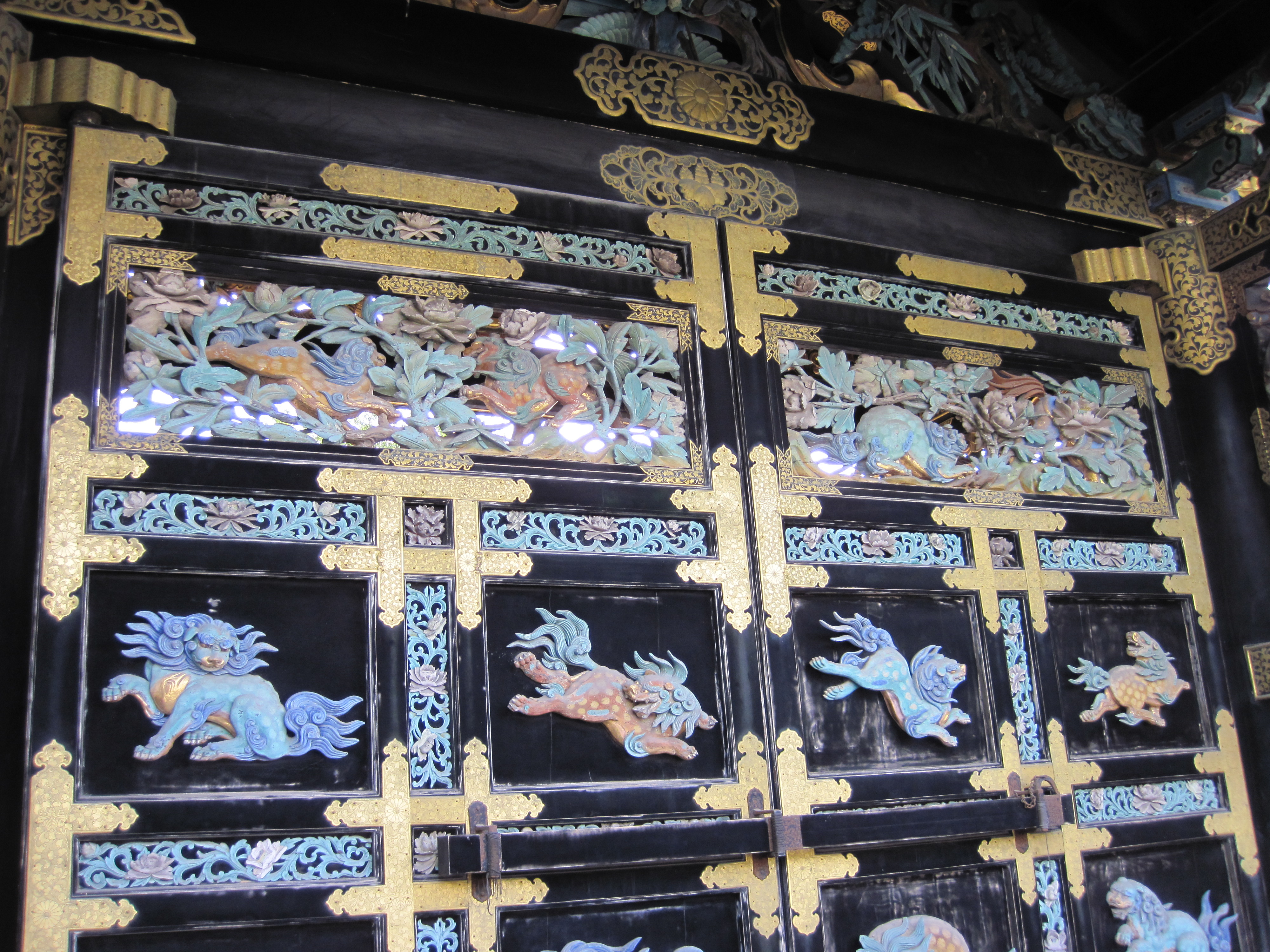 Hongan-ji National Treasure World heritage Kyoto 国宝・世界遺産 本願寺 京都